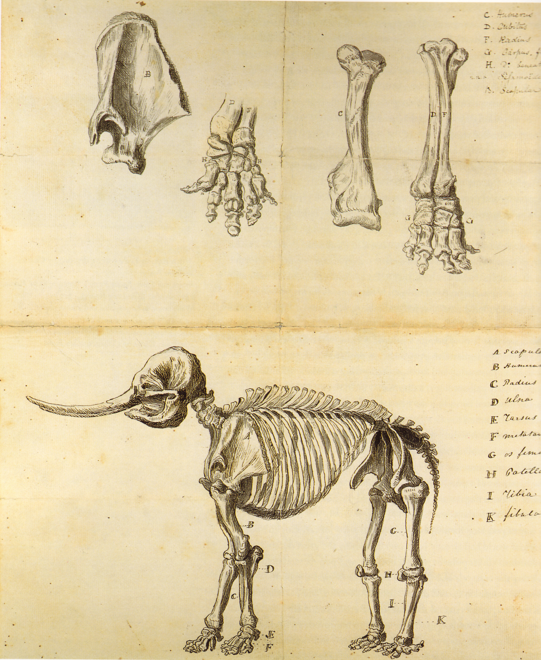 Painting Working Sketch of the Mastodon by Rembrandt Peale